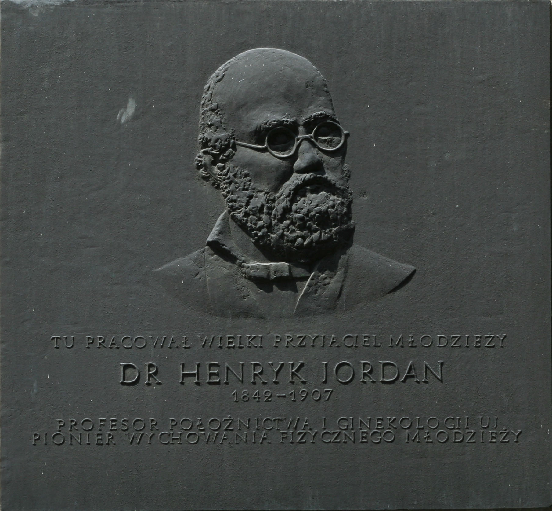 Memorial of doctor Henryk Jordan, Kraków, Poland